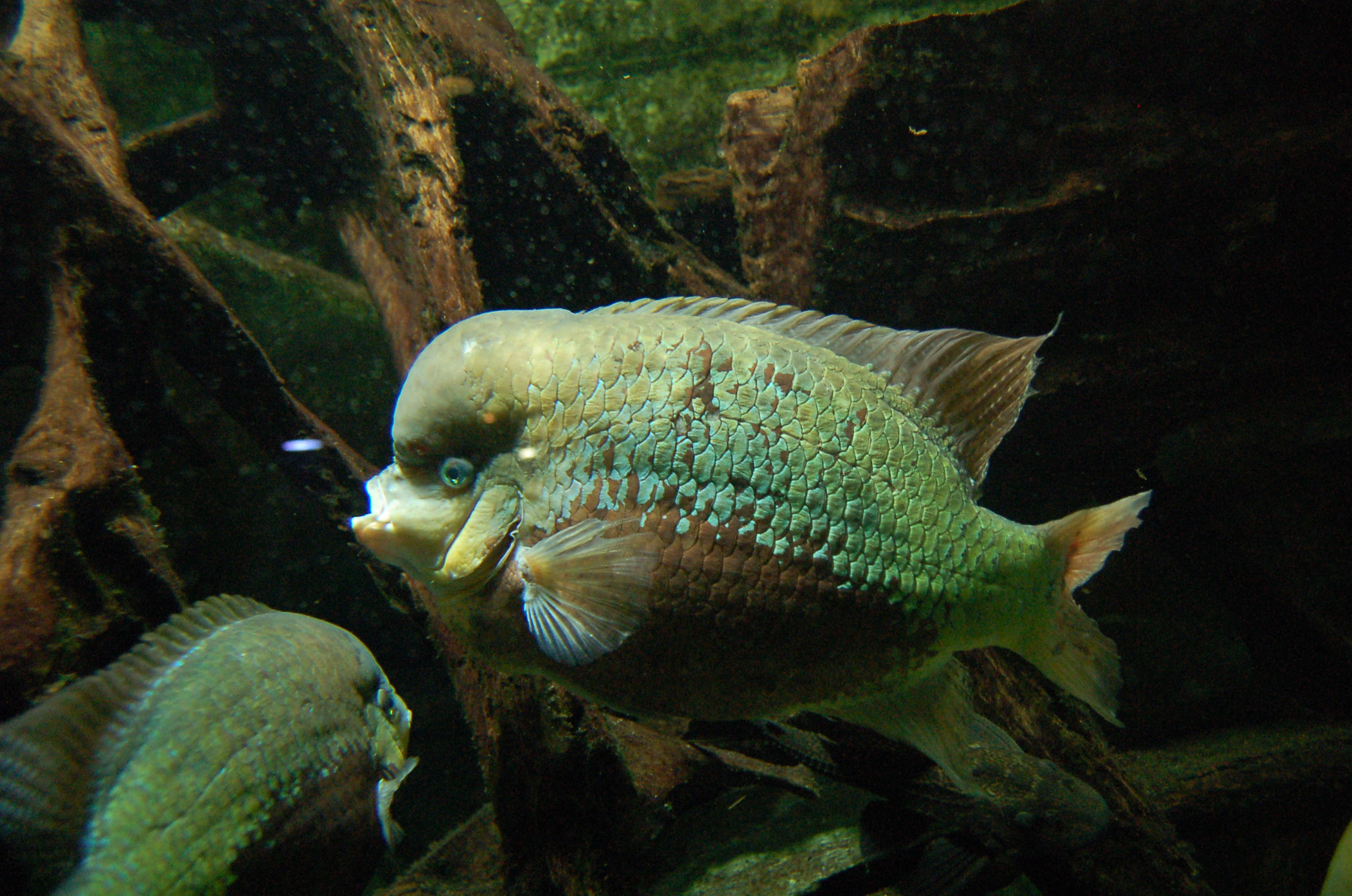 Herichthys pearsei